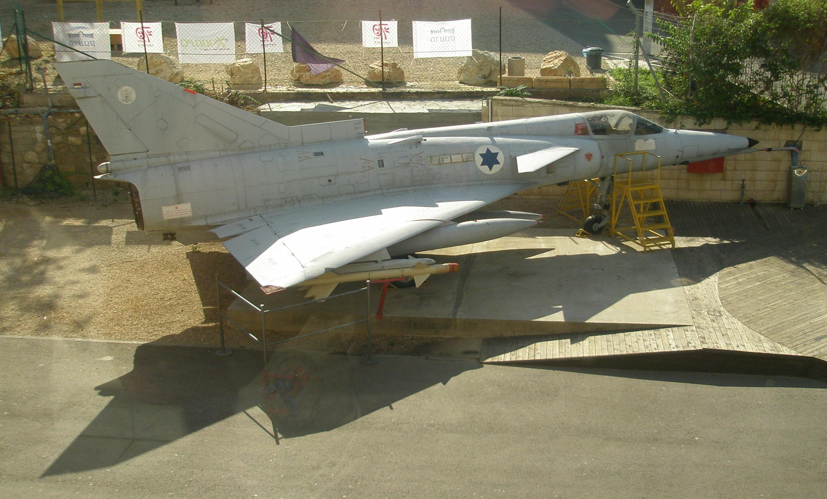 IAI Kfir at the Madatech museum, Haifa